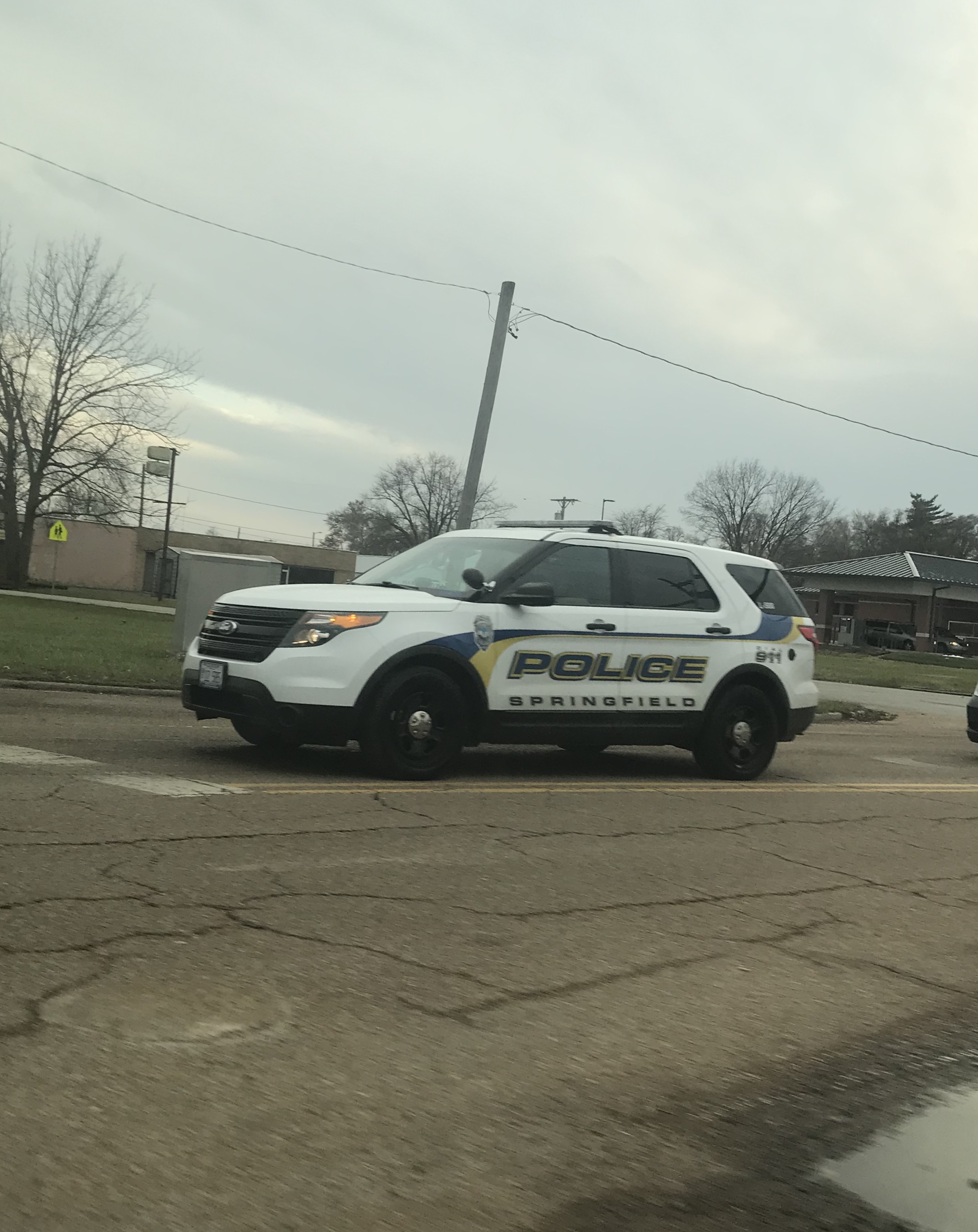 SPD FPIU